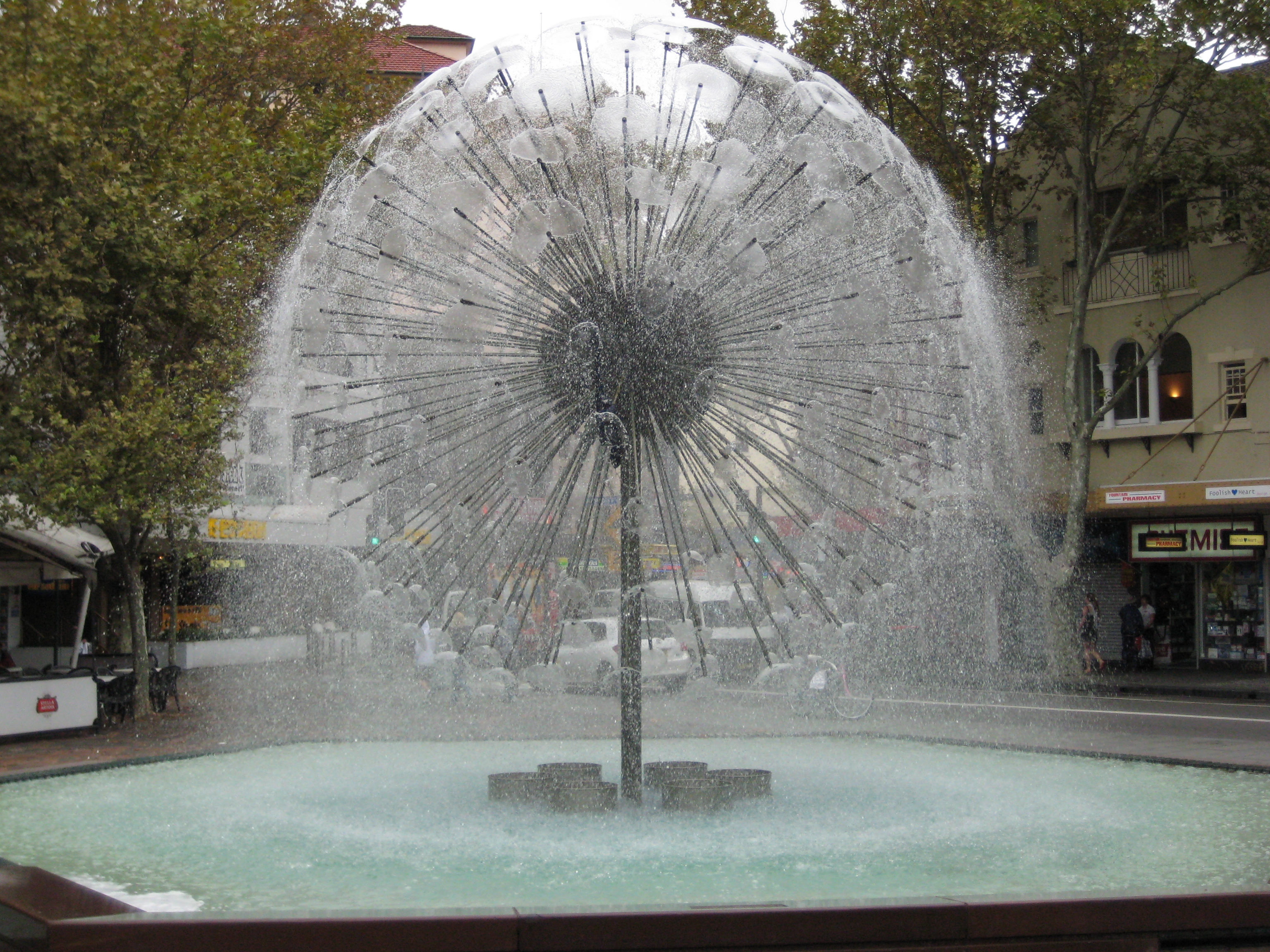 El Alamein Memorial Fountain, Kings Cross, Sydney